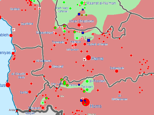 Map of the area